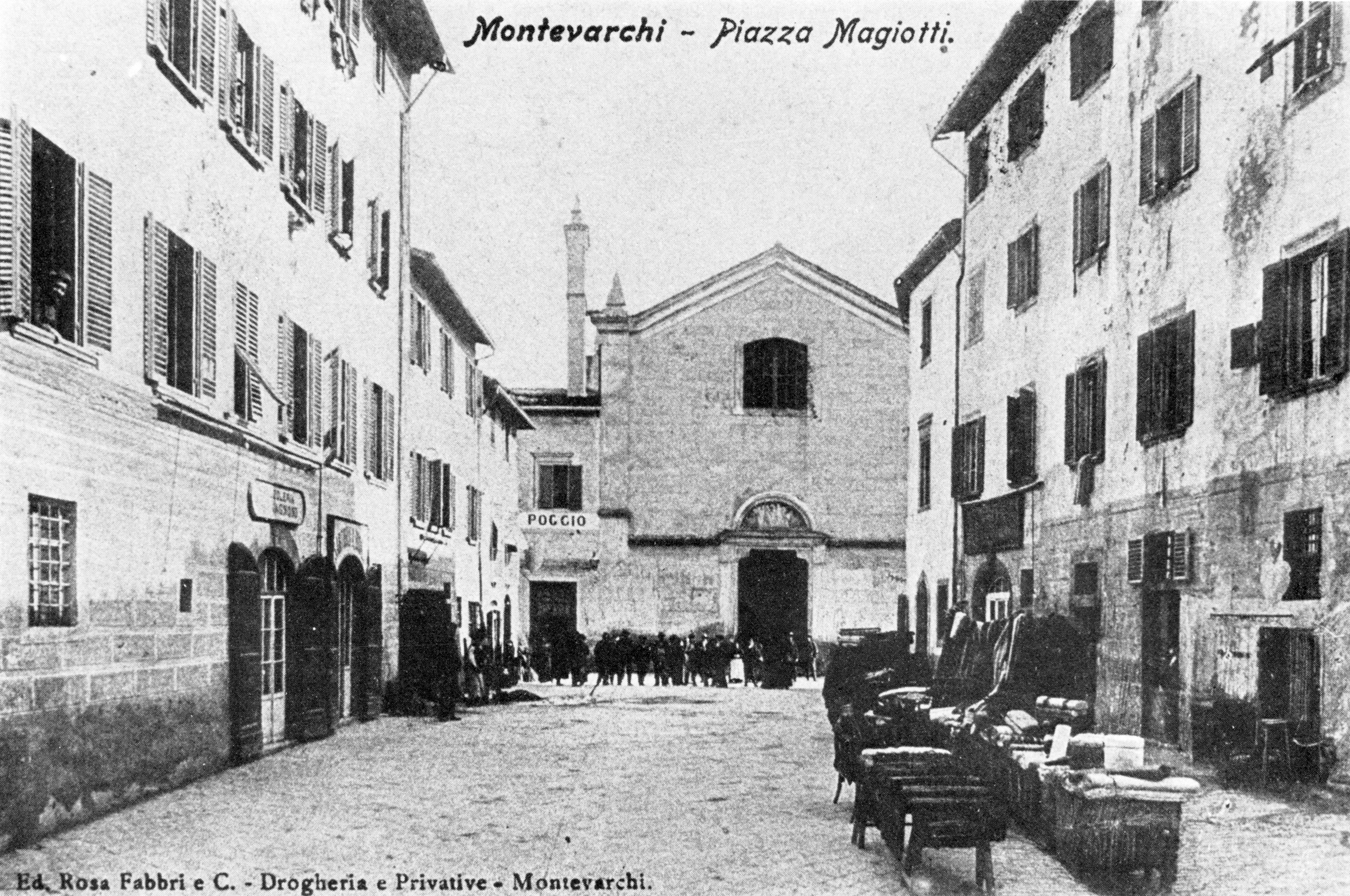 The church of San Ludovico formerly part of the omonimous franciscan convent